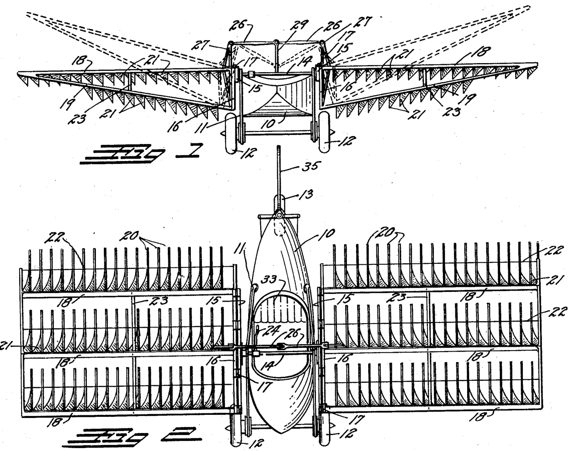 Diagram of Jonathan Edward Caldwell's ornithopter design from US patent 1,730,758